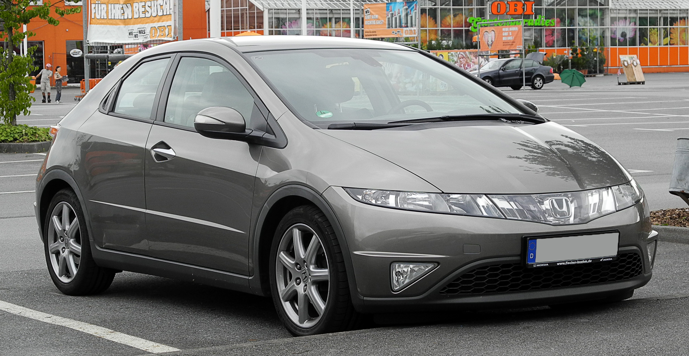 Honda Civic (VIII)